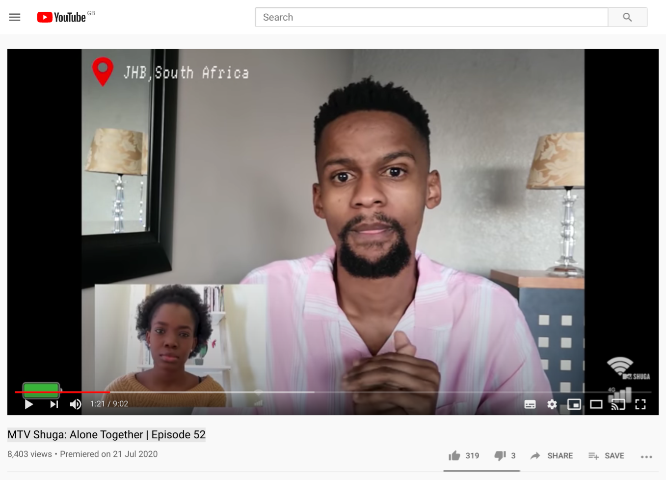 from Episode 52 of MTV Shuga Alone Together 21 July 2020